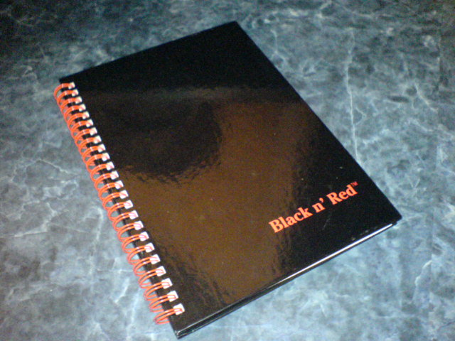 A picture, taken by myself, of my own notepad.